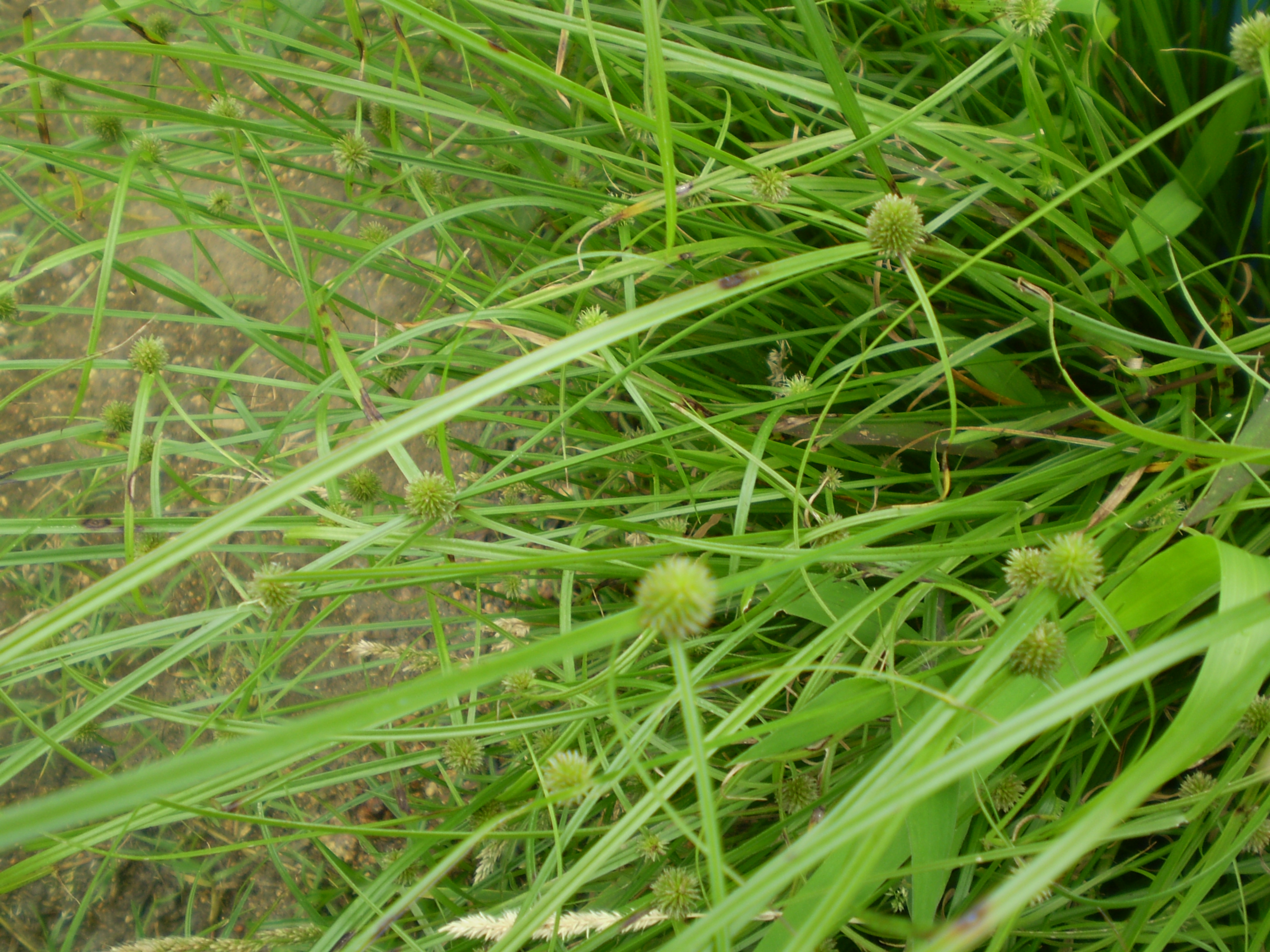 Killinga brevifolia (Cyperus brevifolia) Rottb. var. leiolepis (Fr. et Sav.) Hara